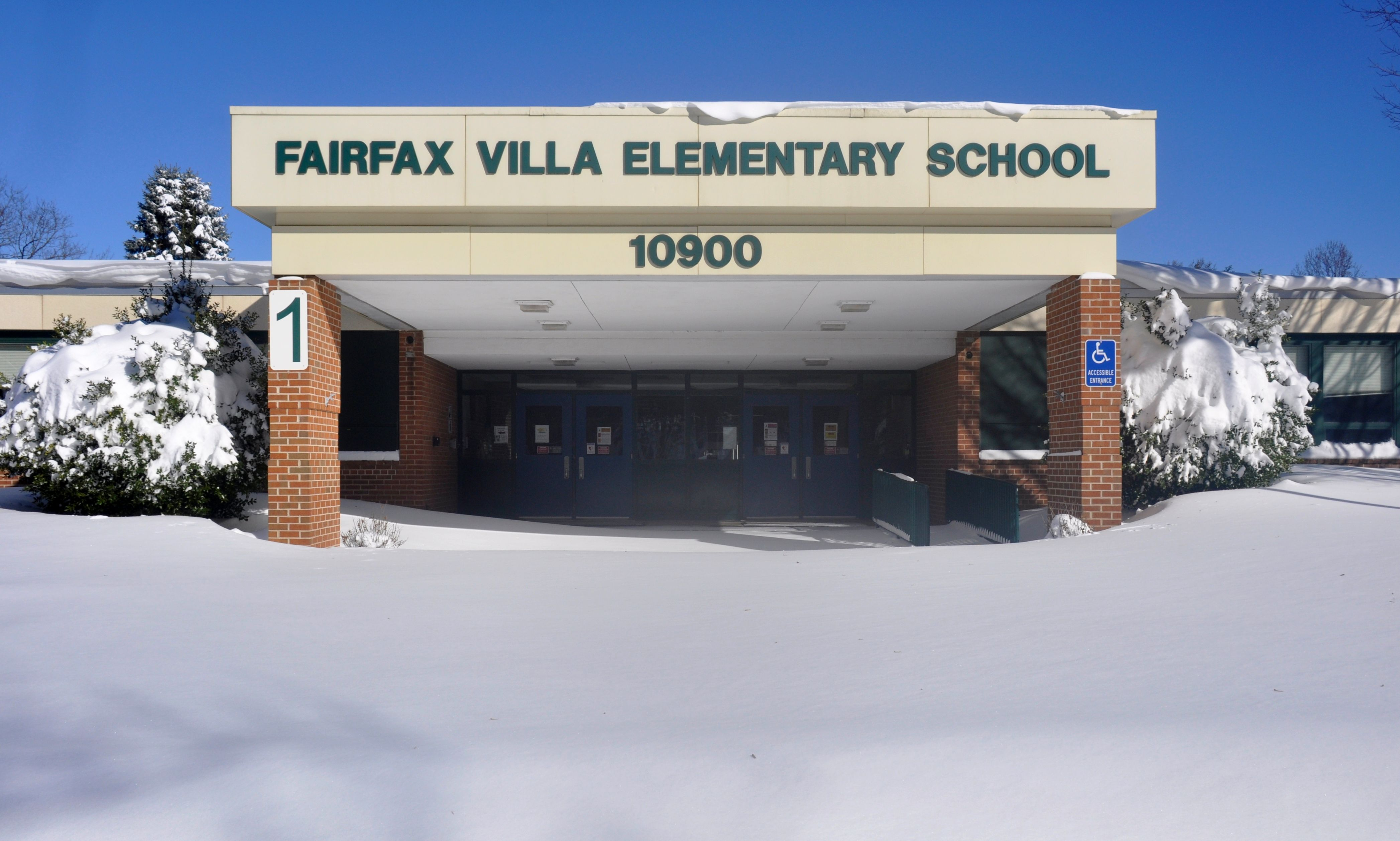 Aftermaths of January 2016 United States blizzard in Fairfax Villa neighborhood in Fairfax, Virginia. - Fairfax Villa Elementary School